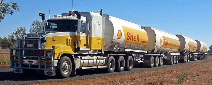 Road Train, Australia. B-train with two dolly/semi units.